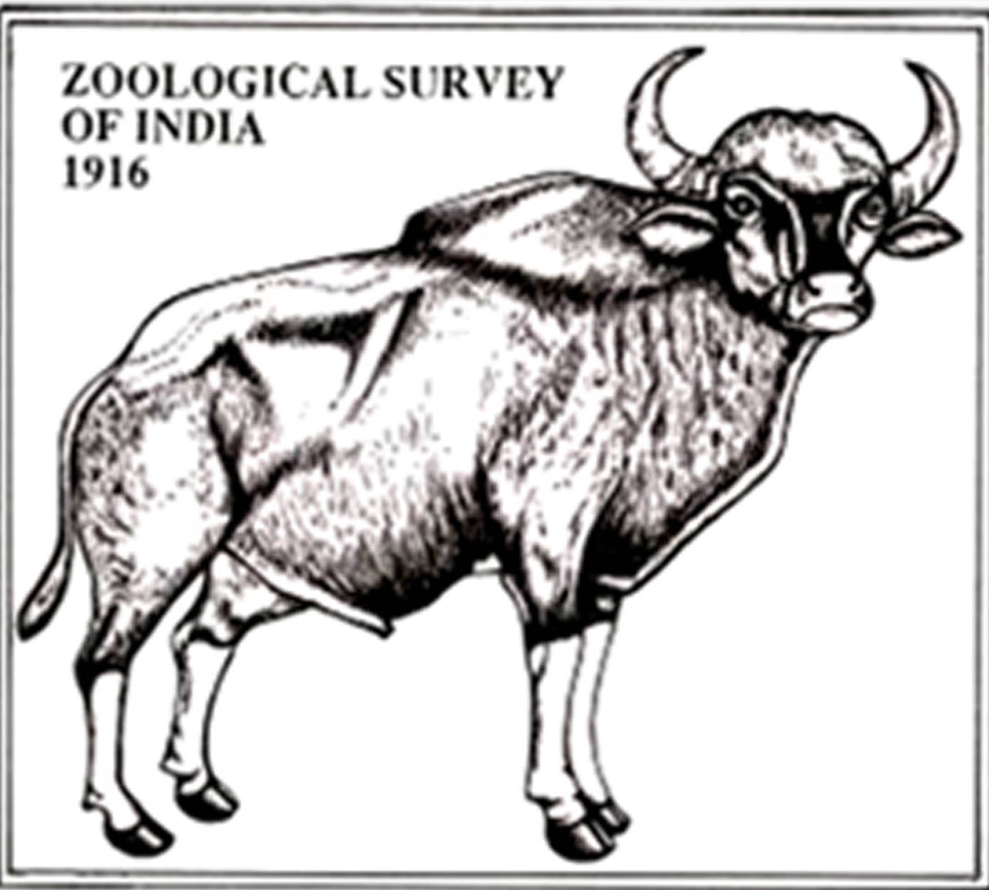 The logo of Zoological Survey of India